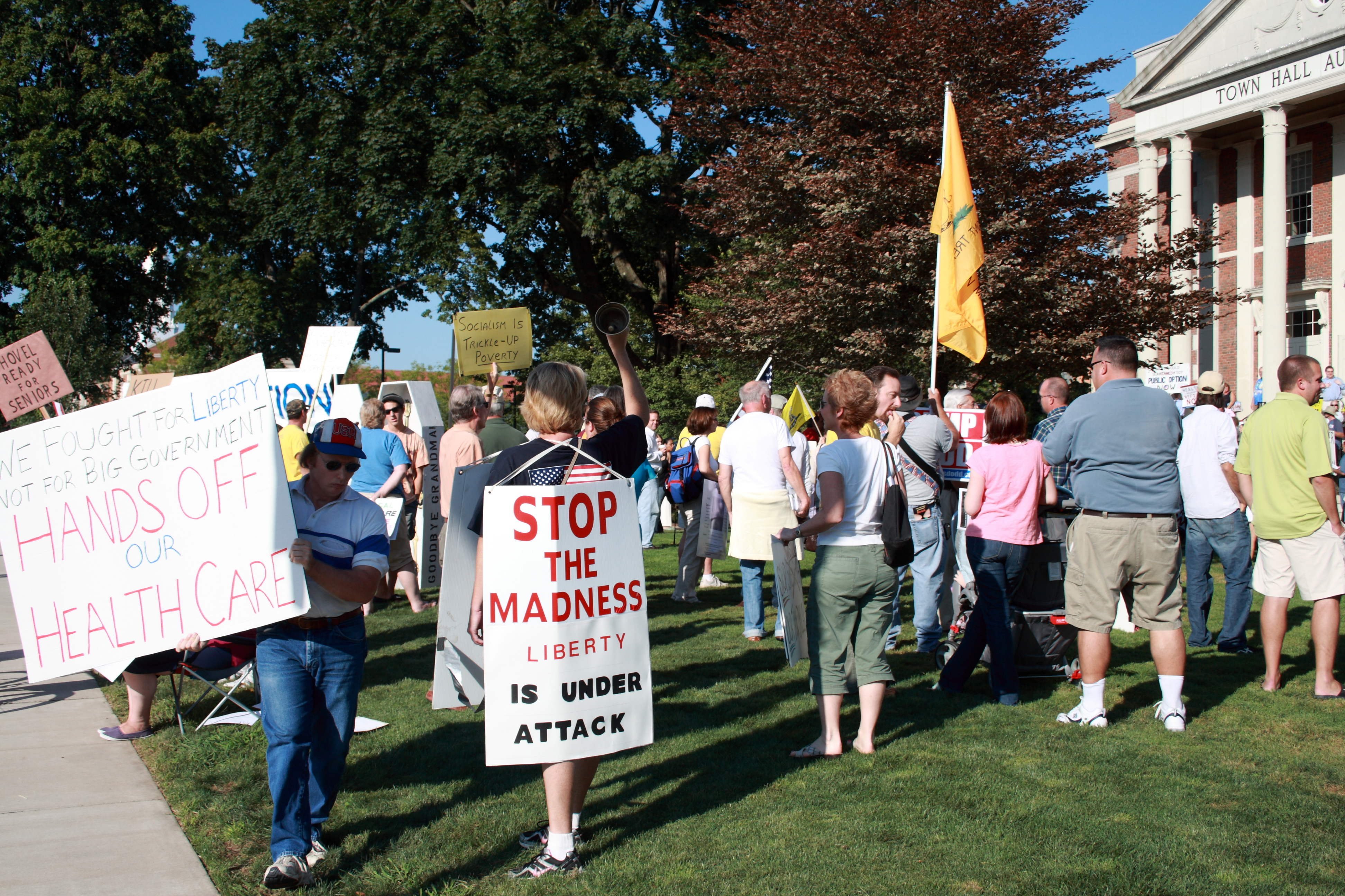 People gathered outside the West Hartford, Connecticut town hall before a health care reform town hall meeting with U.S. Representative John B. Larson on 2 September 2009